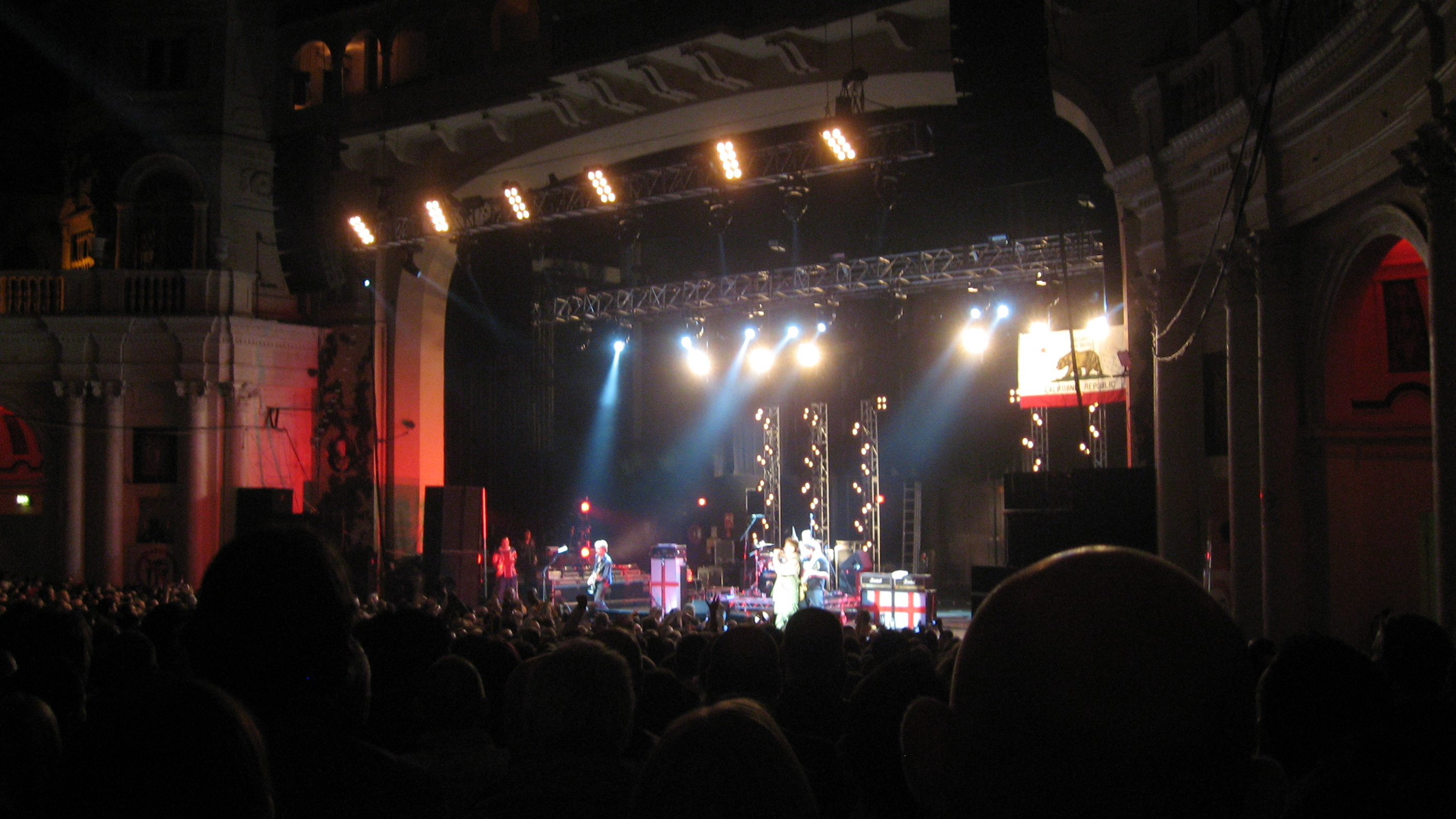 The Sex Pistols performing at Brixton Academy in Stockwell, London, on November 3, 2007.